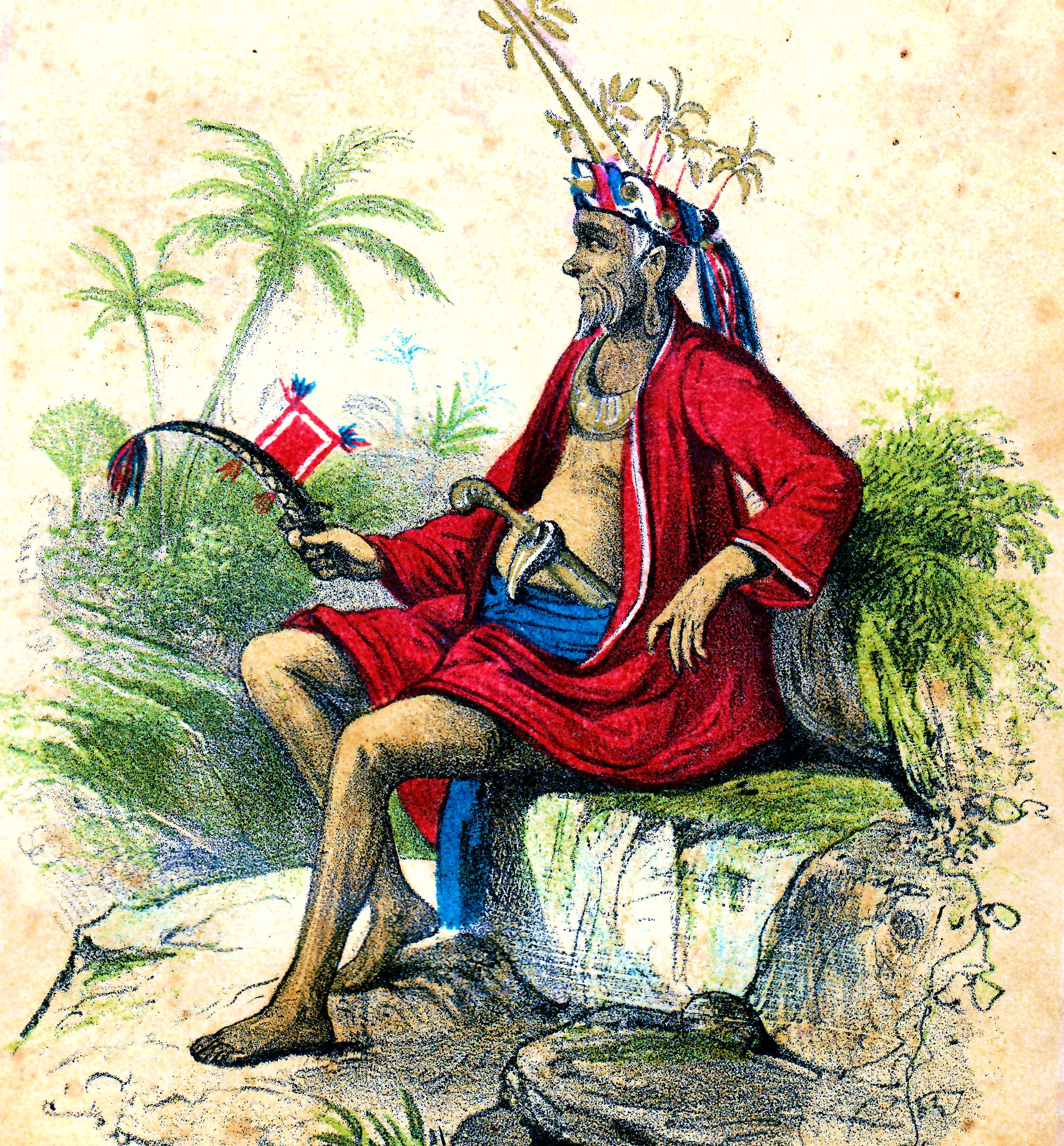 Radja uit Nias